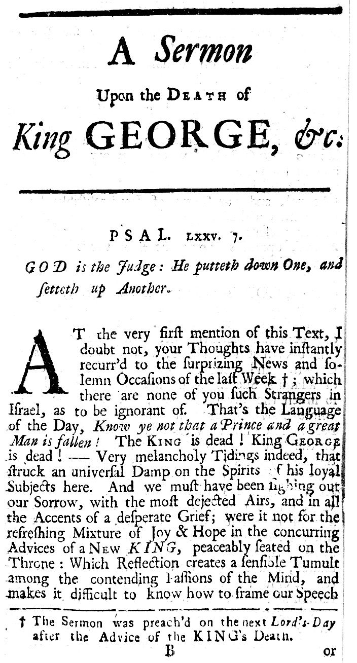 God the judge, putting down one, and setting up another. A sermon upon occasion of the death of our late sovereign lord King George, and the accession of His present Majesty, King George II to the British throne. By Thomas Foxcroft, A.M. Minister of the Old Church in Boston.